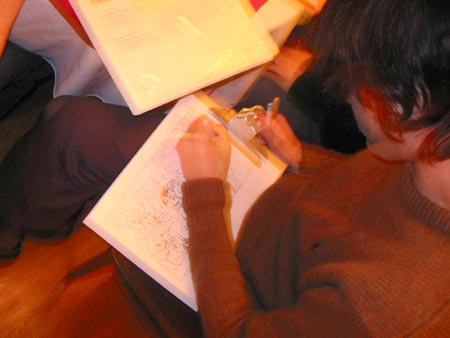 A photo of Marc Bell i snaped at the Monthly Montreal Comix Jam of Feb/25/2004. Taken by Salgood Sam, Copyright 2004